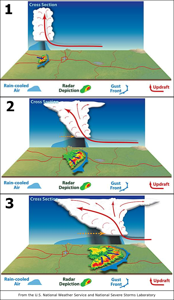 How derechos develop